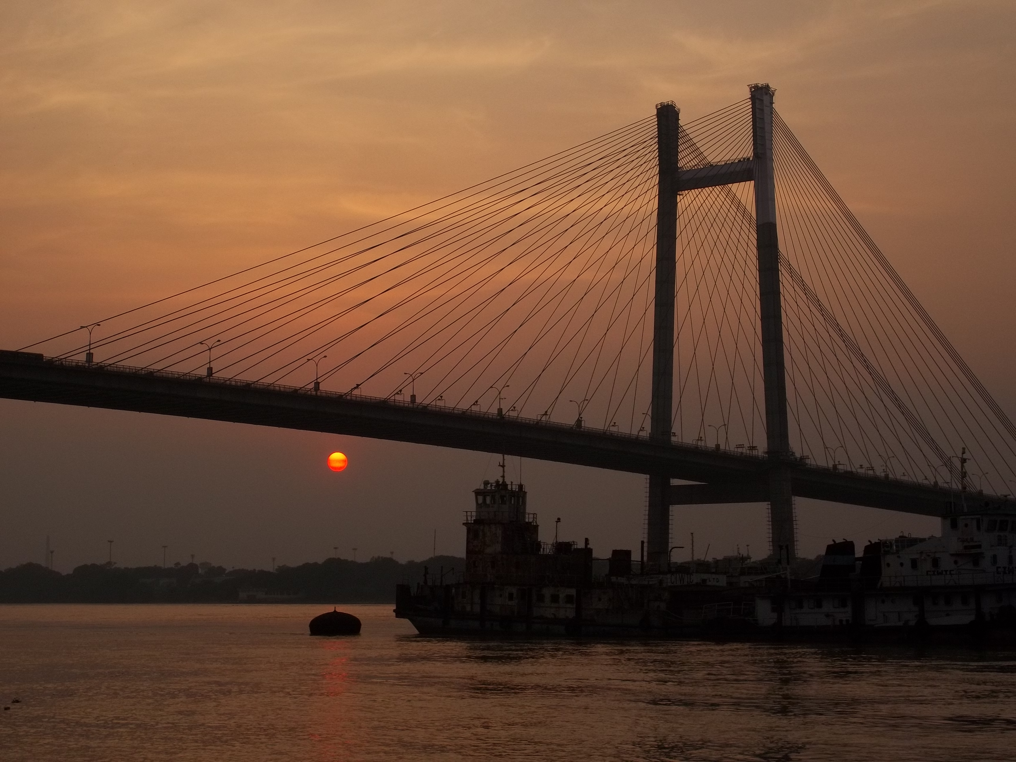 A photo of Vidyasagar Setu at Sunset.